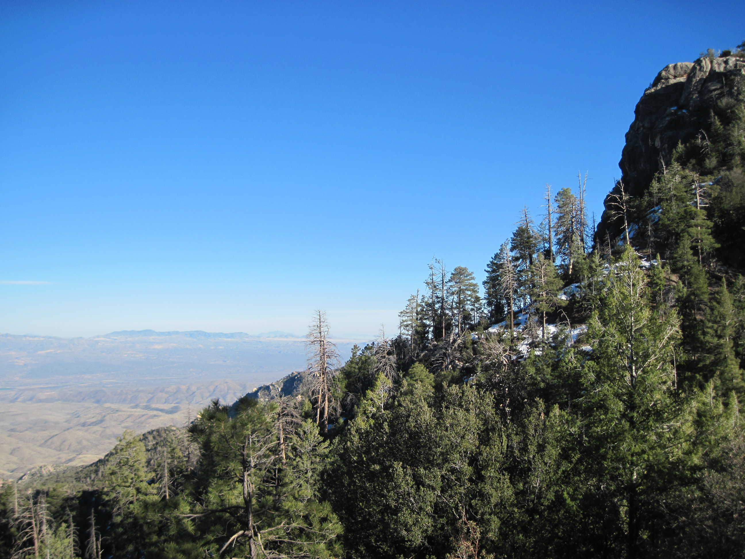 View from above 7000 feet in the Catalina Mountains, near Tucson, Arizona, USA